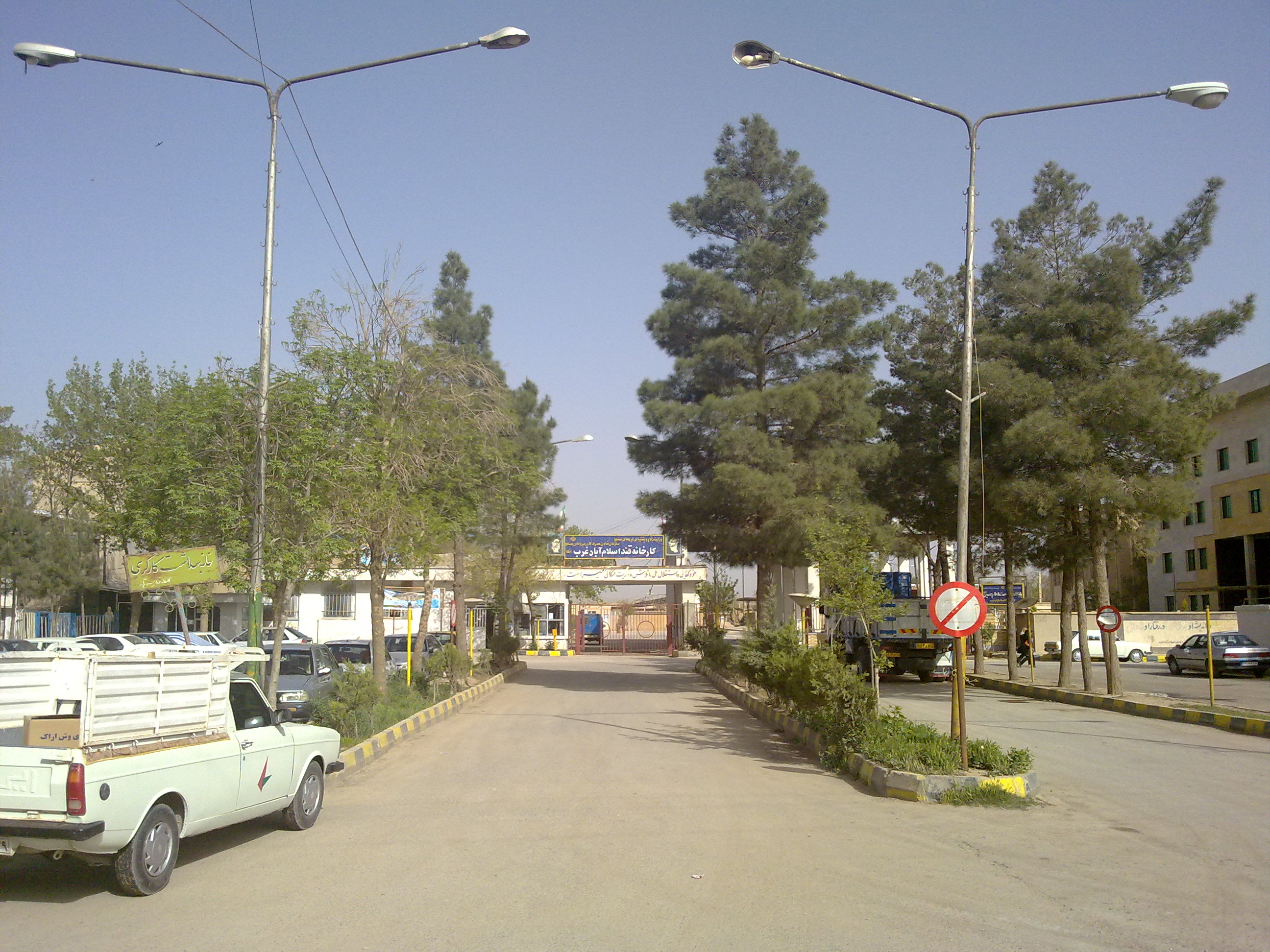 Sugar Factory of Islam-Abad-e Gharb, founded in 1935.